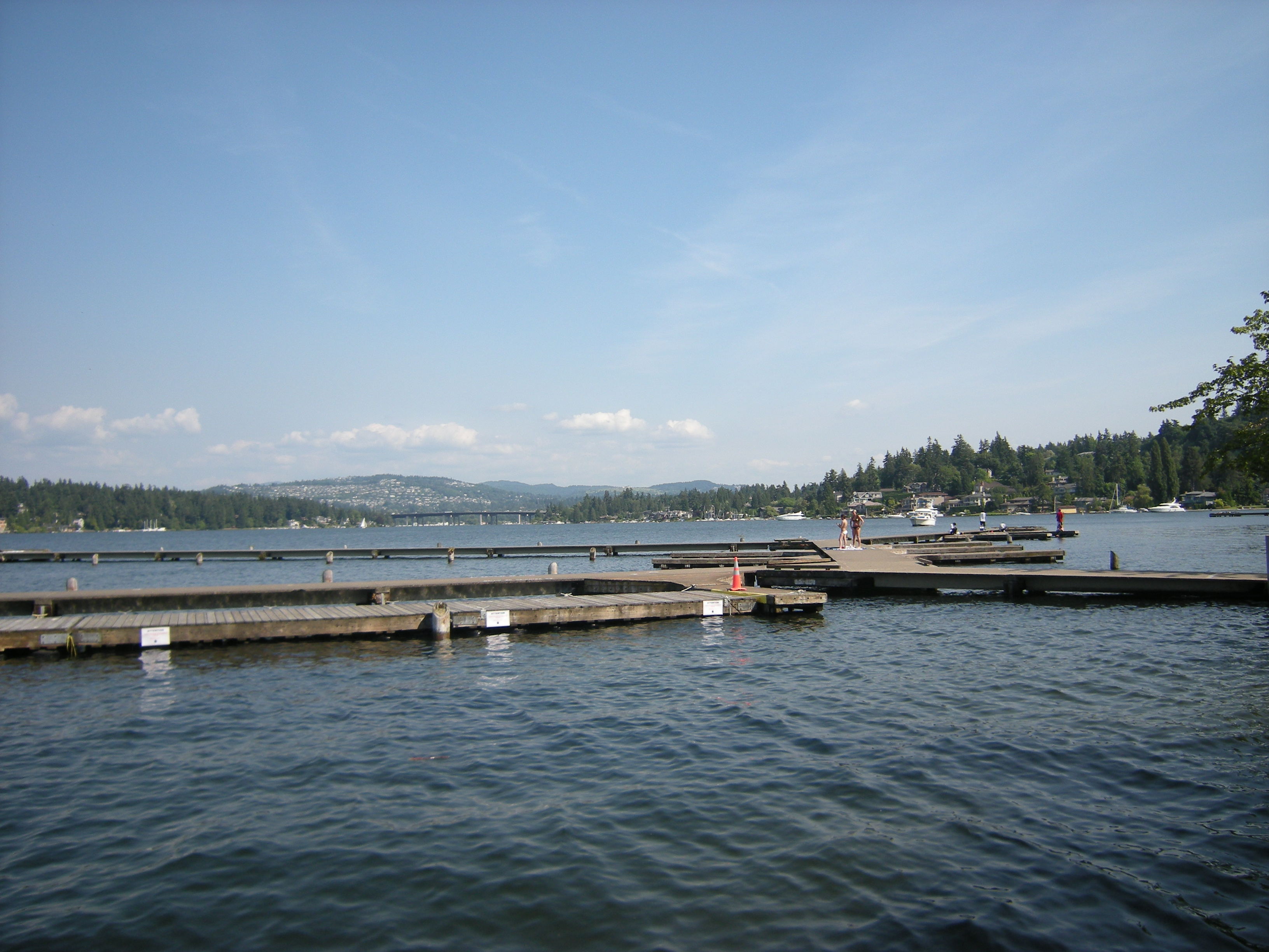 Docks, Luther Burbank Park, Mercer Island, Washington. In background is Interstate 90 Mercer East bridge.